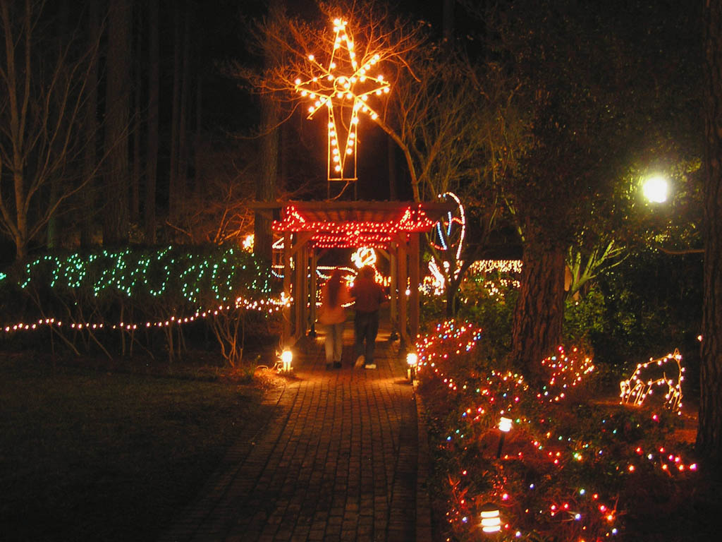 Photograph of part of the light display at Guido Gardens in Metter, Georgia